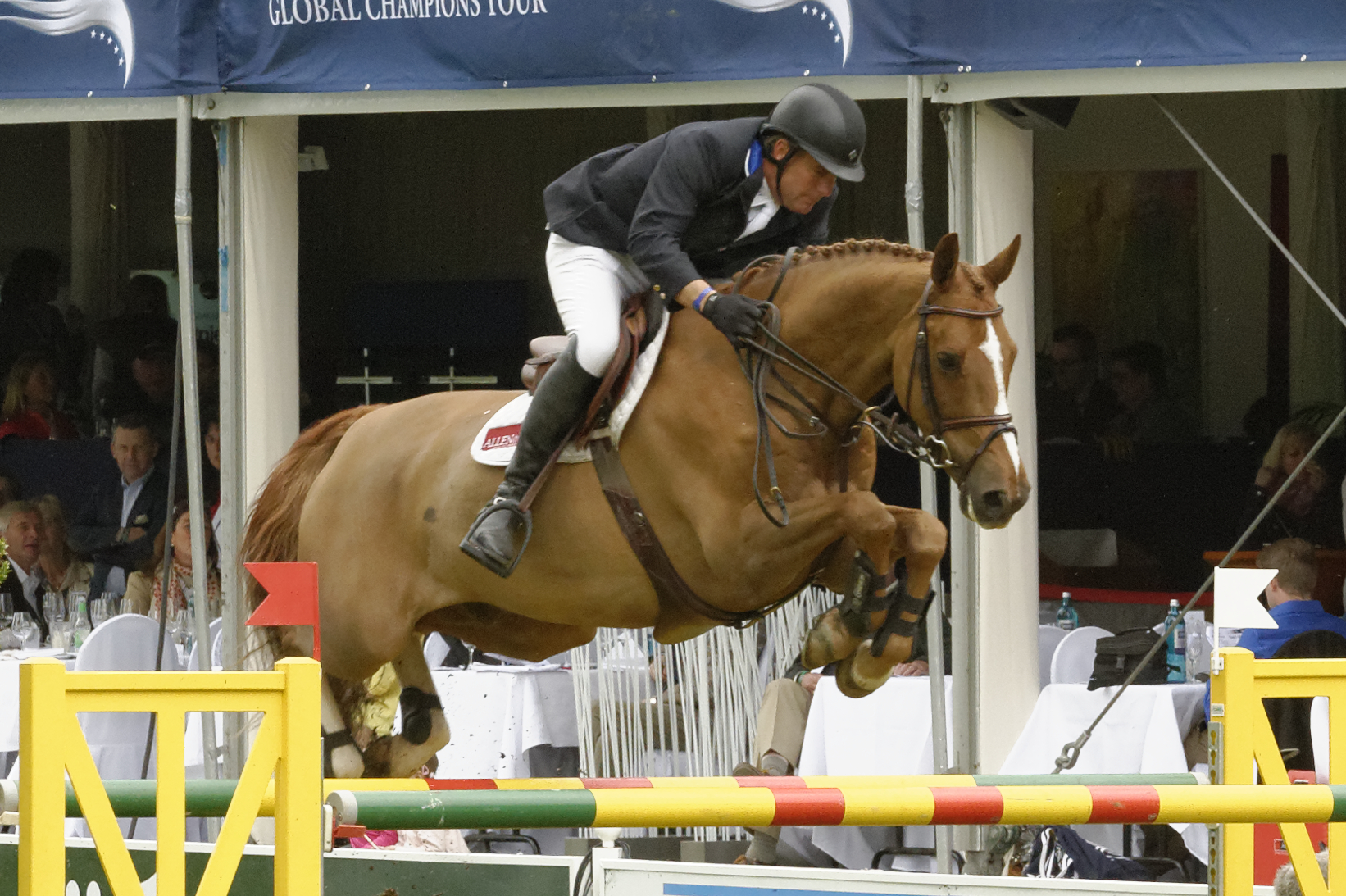 Internationales Pfingstturnier Wiesbaden 2013 The making of this document was supported by the Community-Budget of Wikimedia Germany.